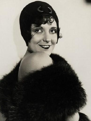 Mary Doran